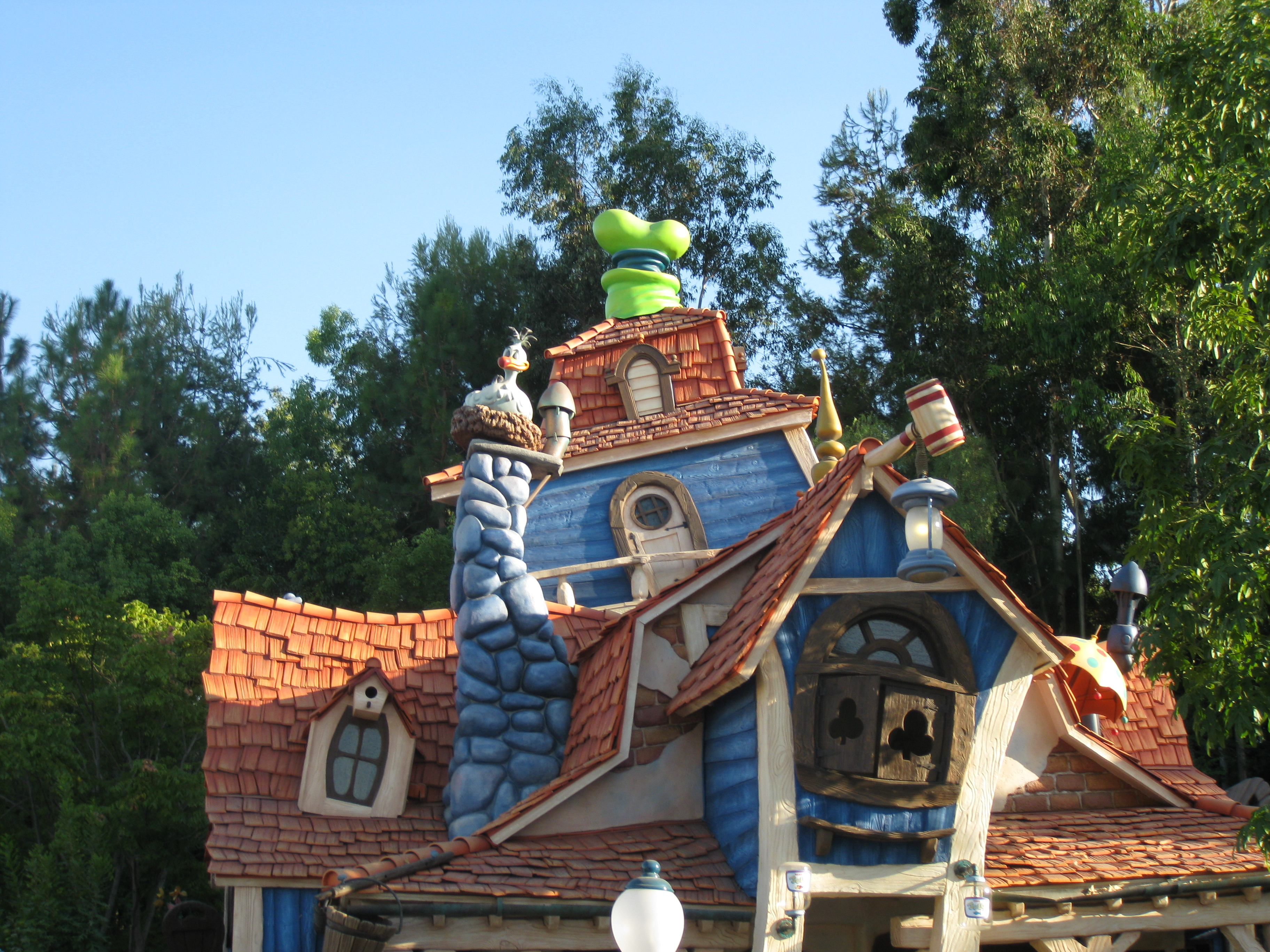 Disneyland Toontown